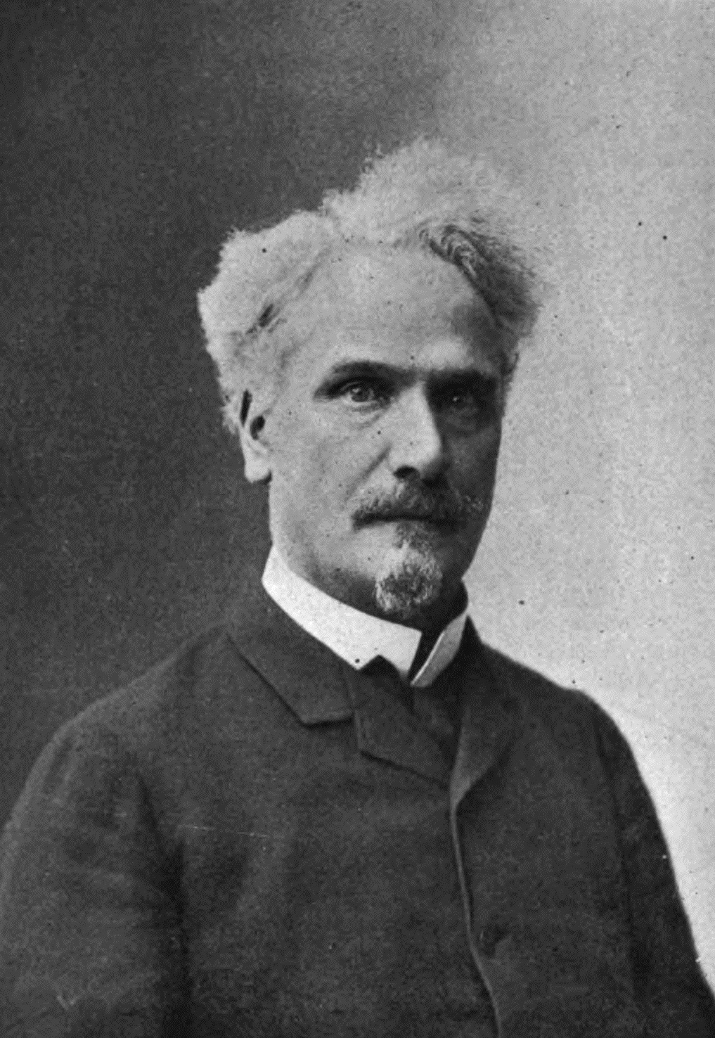 Henri Rochefort